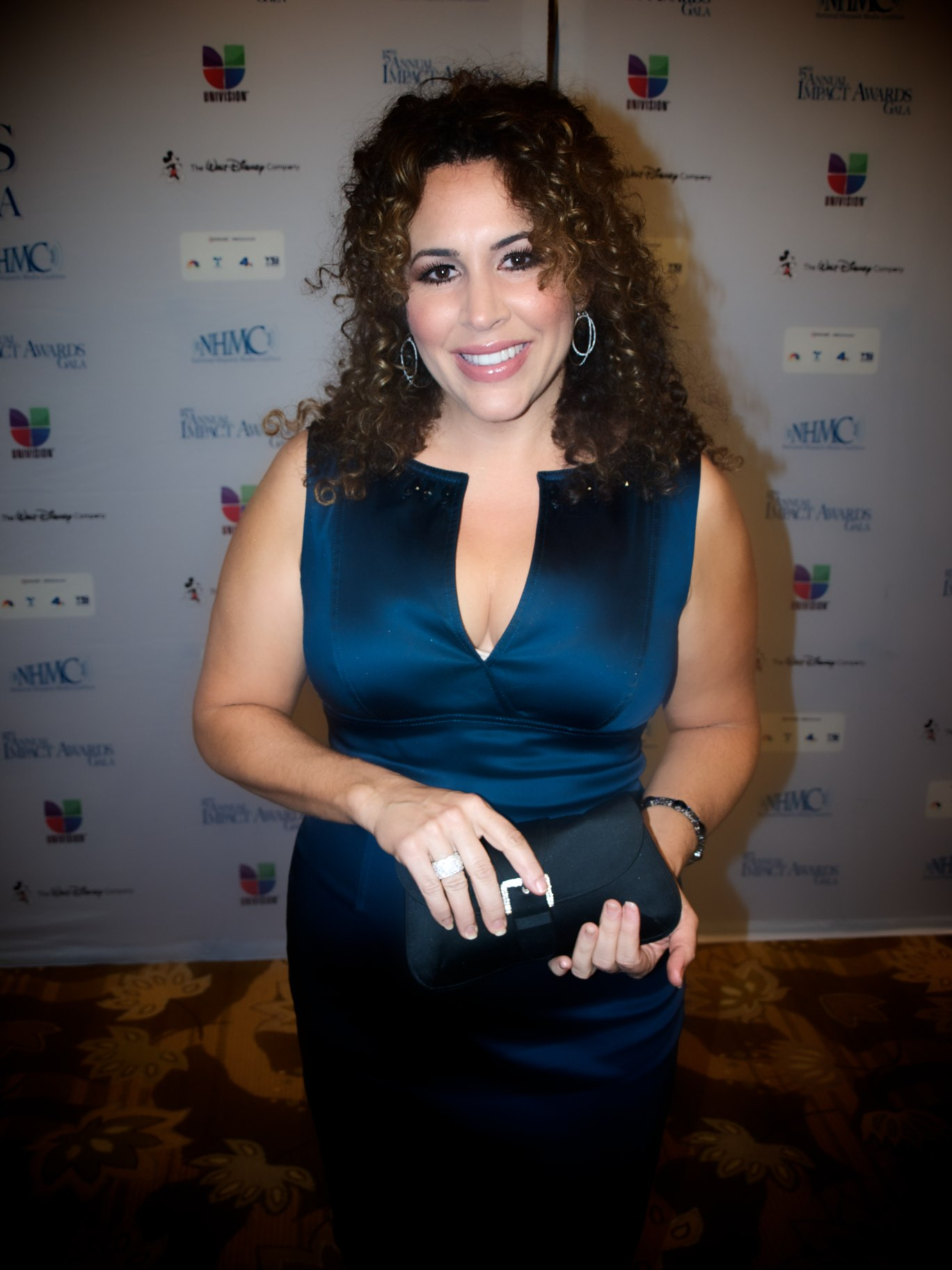 Diana Maria Riva at the National Hispanic Media Coalition 2012 Impact Gala